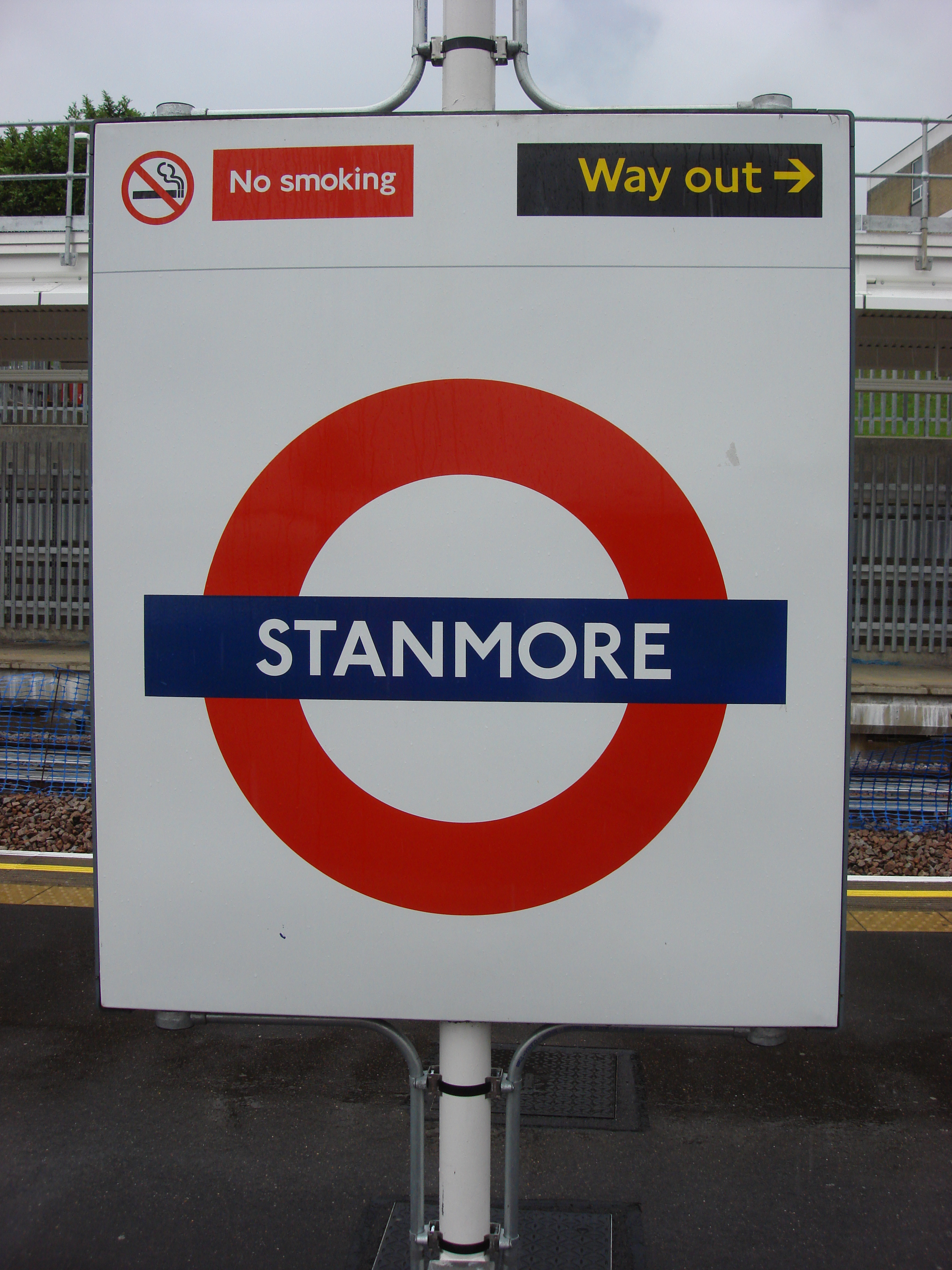 Stanmore tube station, roundel